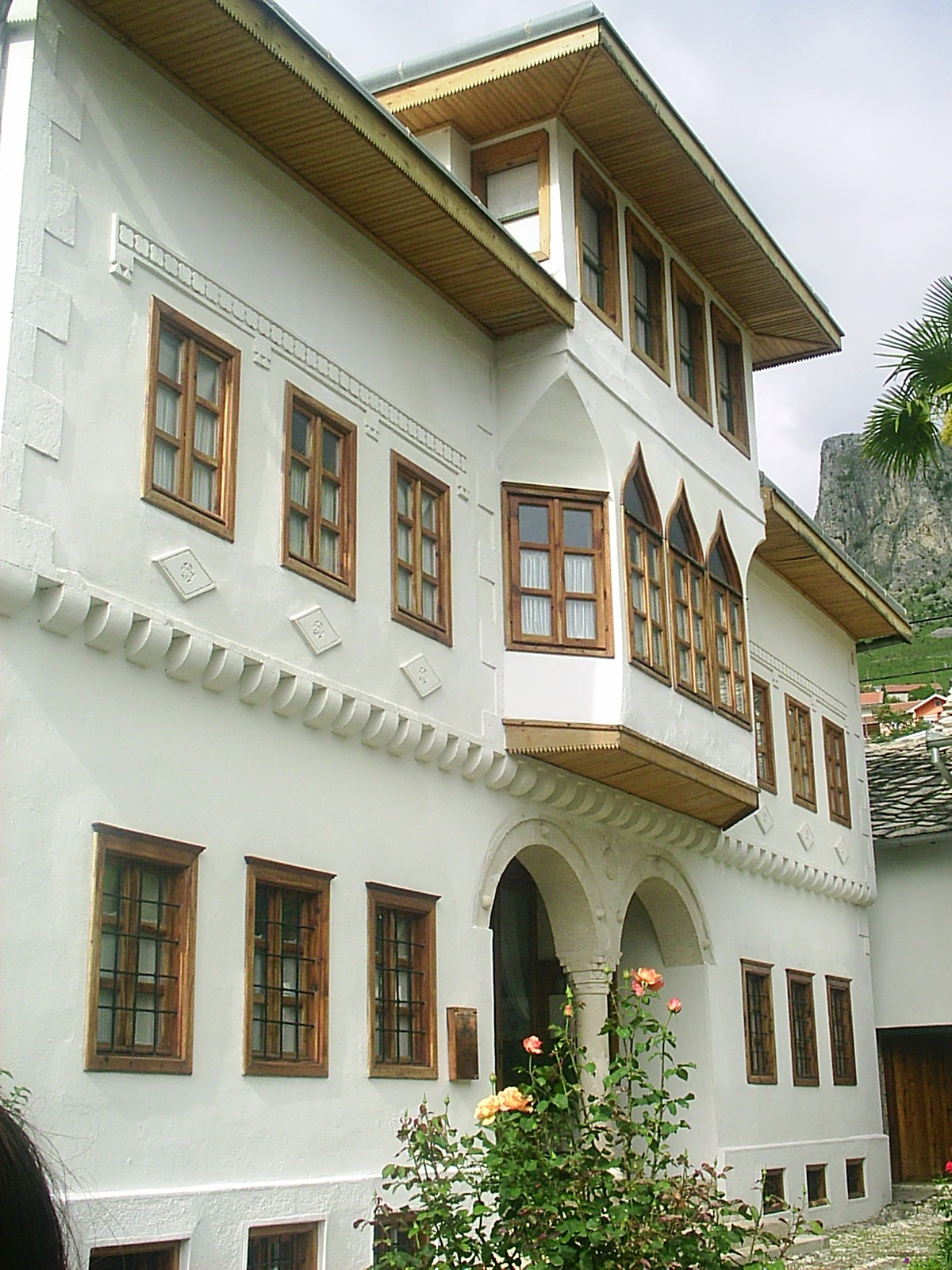 City of Mostar, southern Bosnia and Herzegovina